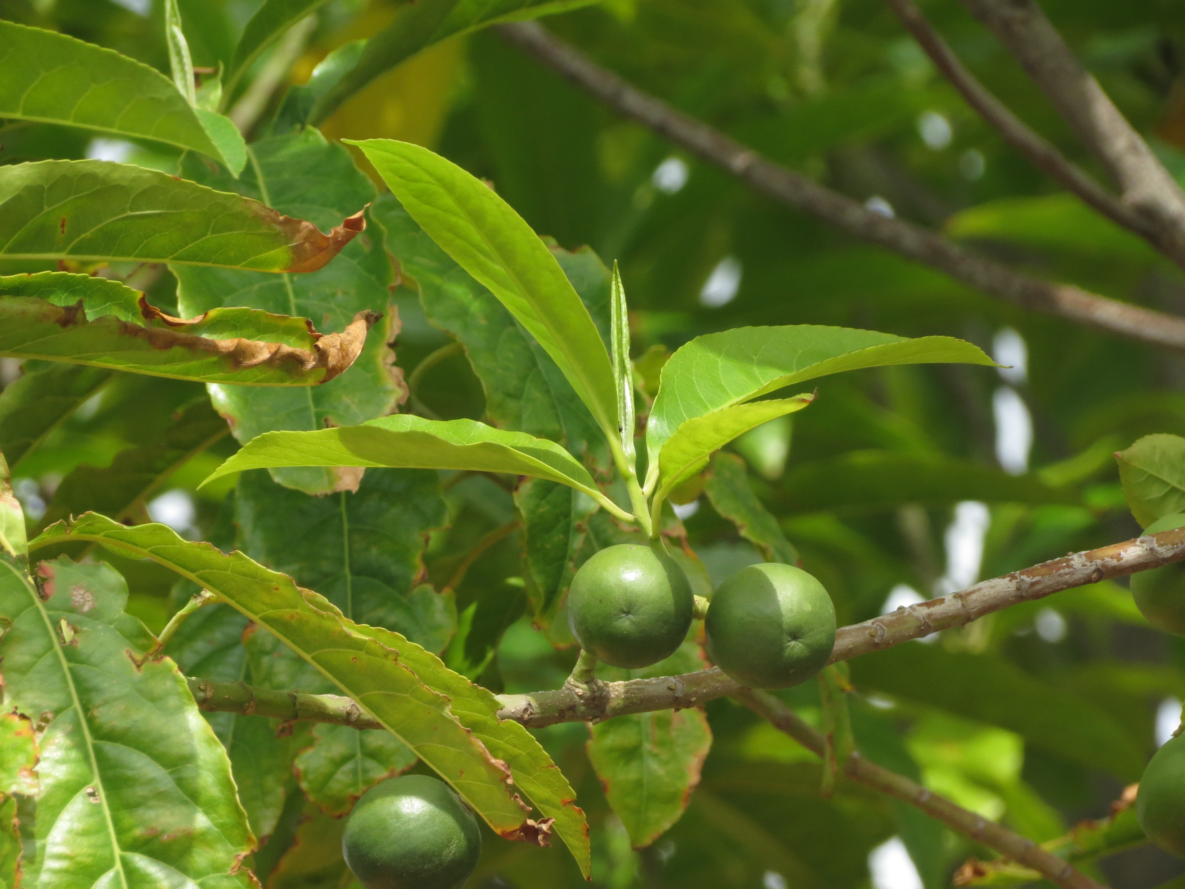 Elaeocarpus ganitrus fruit in FRLHT Bangalore